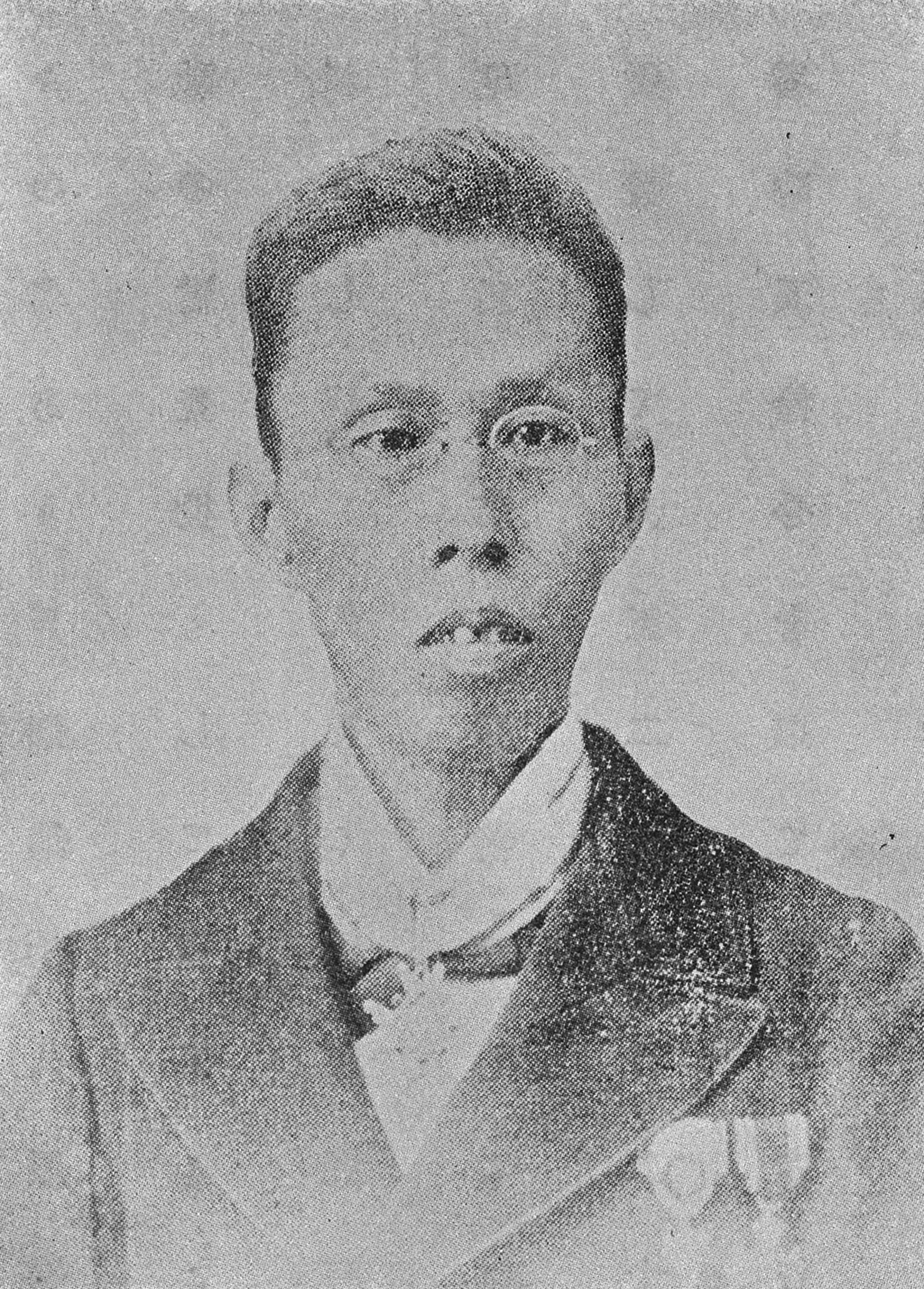 Portrait of Furusawa Uro (古沢滋, 1847 – 1911)